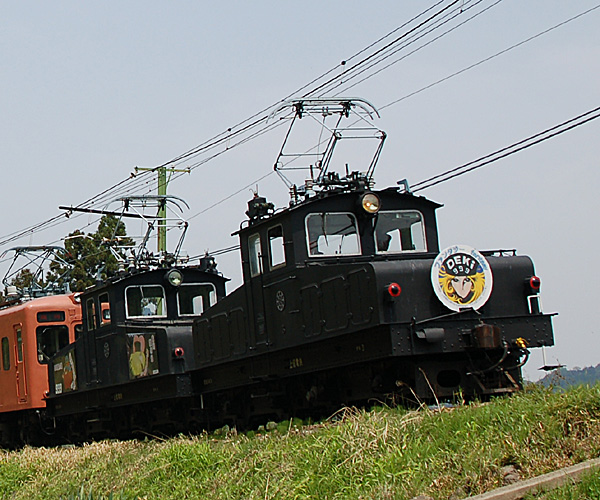 Jyosin electric railway type "DEKI 1" electric locomotive. 上信電鉄デキ1型電気機関車。毎年5月に団体臨時列車｢ファンタジー号｣として電車を牽引して運転する。